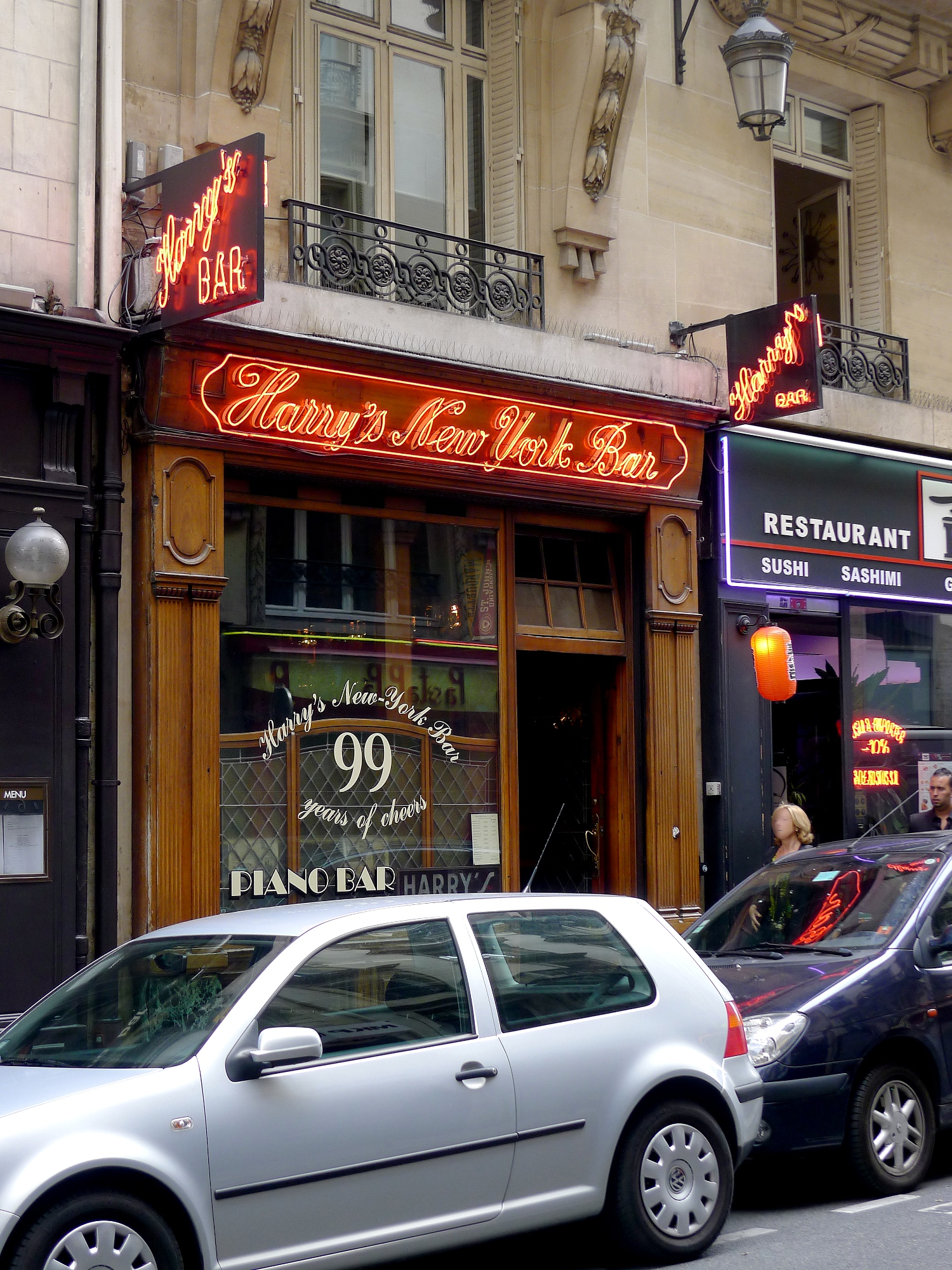 Rue Daunou - Paris